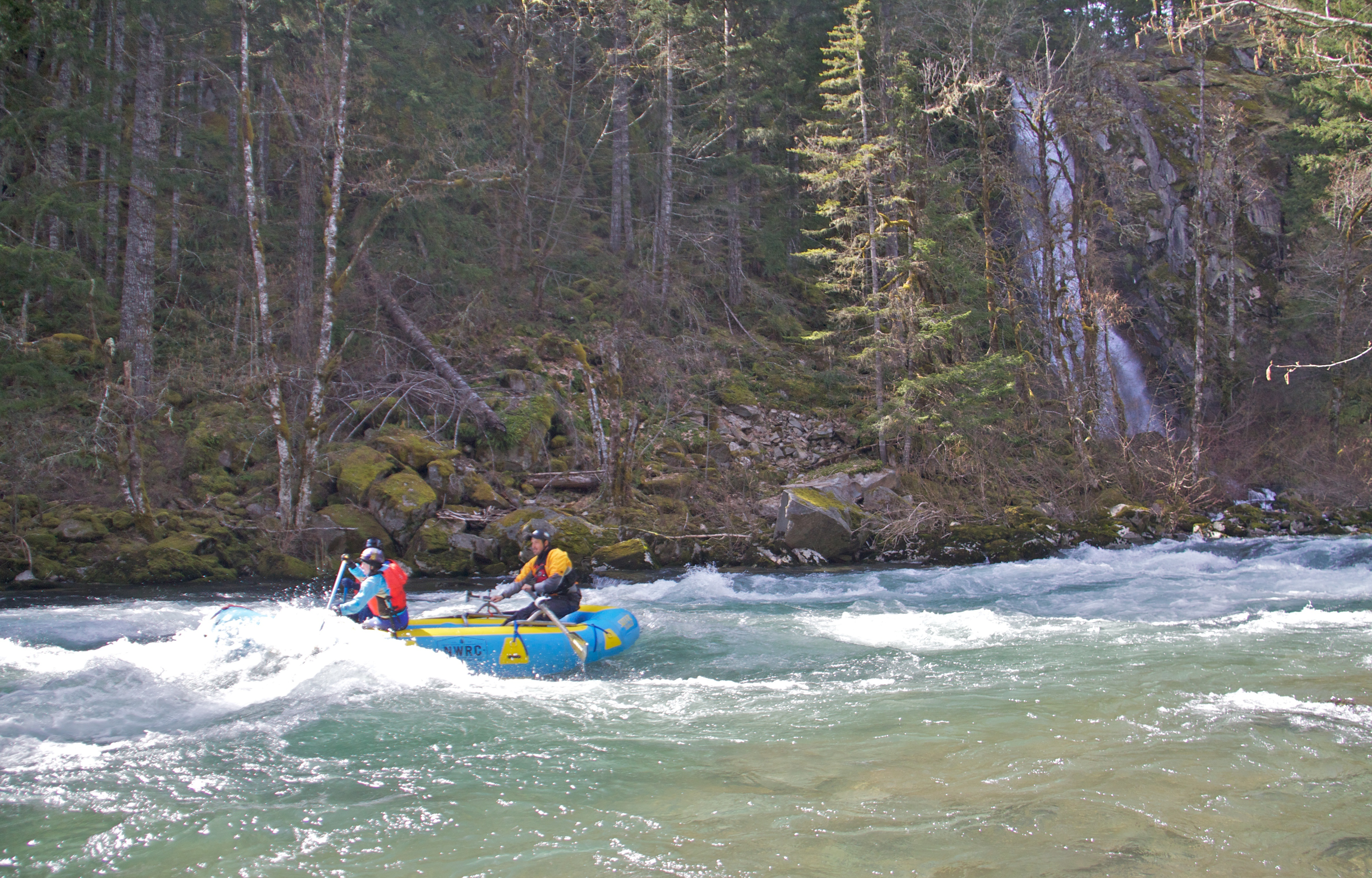 Rafting the Wind River in southern Washington state